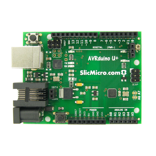 Compatible with Arduino Uno Rev3, has extra features, and much lower cost since it is sold direct from SlicMicro to customer